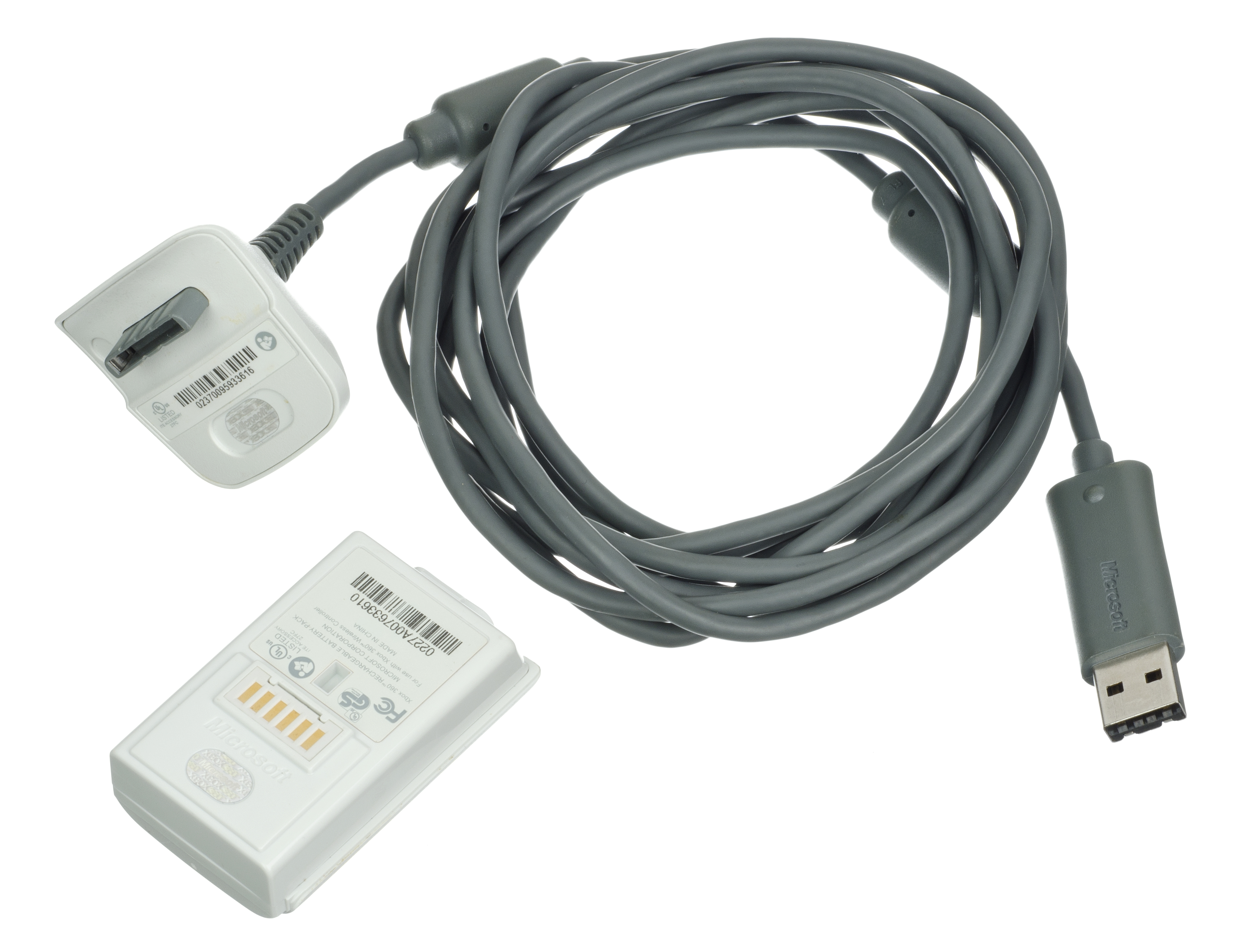 The white version of the play and charge kit for the Xbox 360. The USB cable attached to the top of the Xbox 360 controller and would charge the rechargeable battery. The USB cable only provided recharging and would not allow for control over the gamepad. Meaning, a wireless controller couldn't become a wireless controller with this cable.